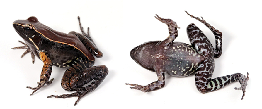 Figure 4; Frogs of the Ranidae at MBCA: Abavorana luctuosa. Pairs of photos (dorsolateral and ventral) depict the same individual.